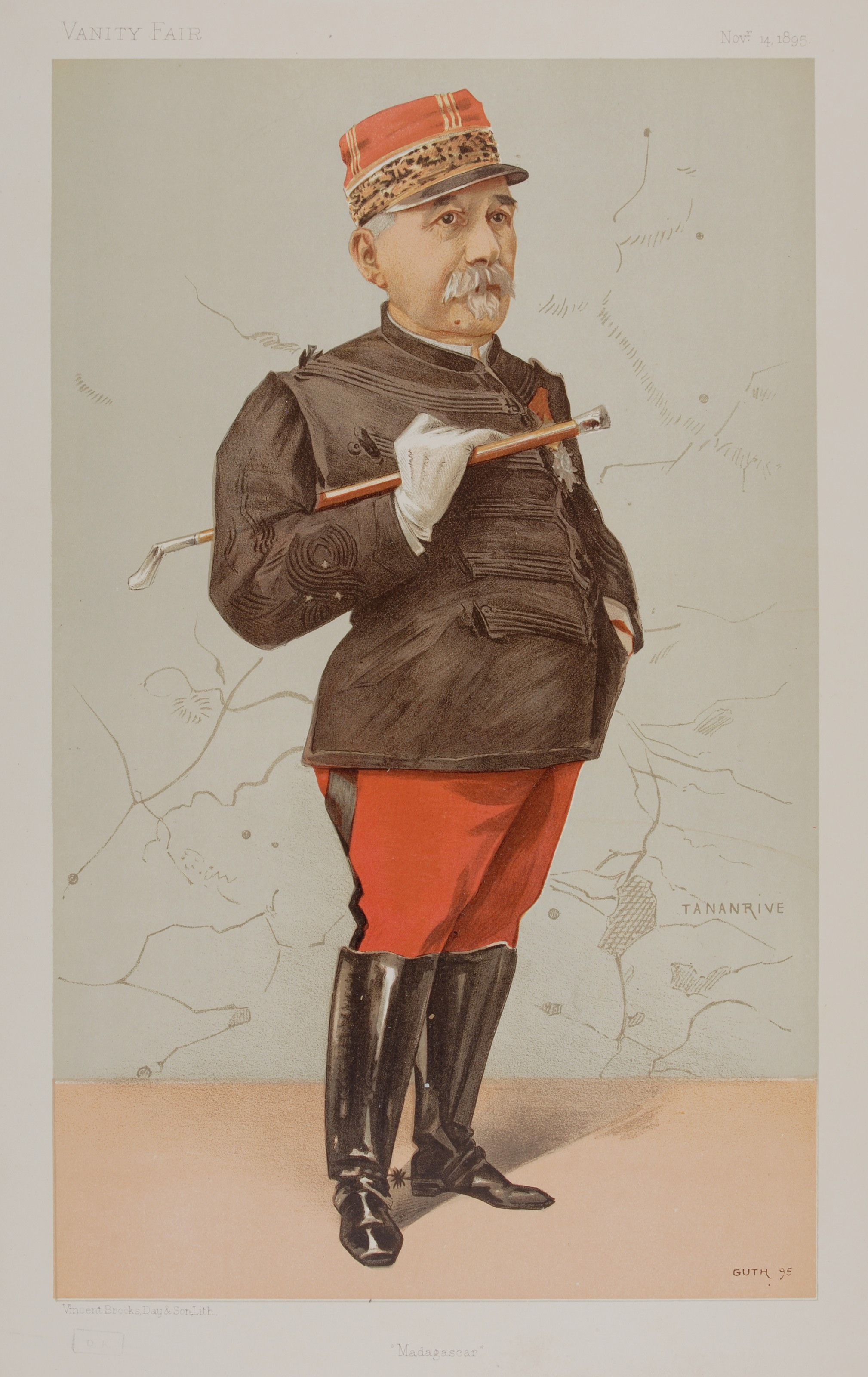 Men of the Day No. 636: Caricature of General Jacques Charles René Achille Duchesne (1837-1918). Caption read "Madagascar".